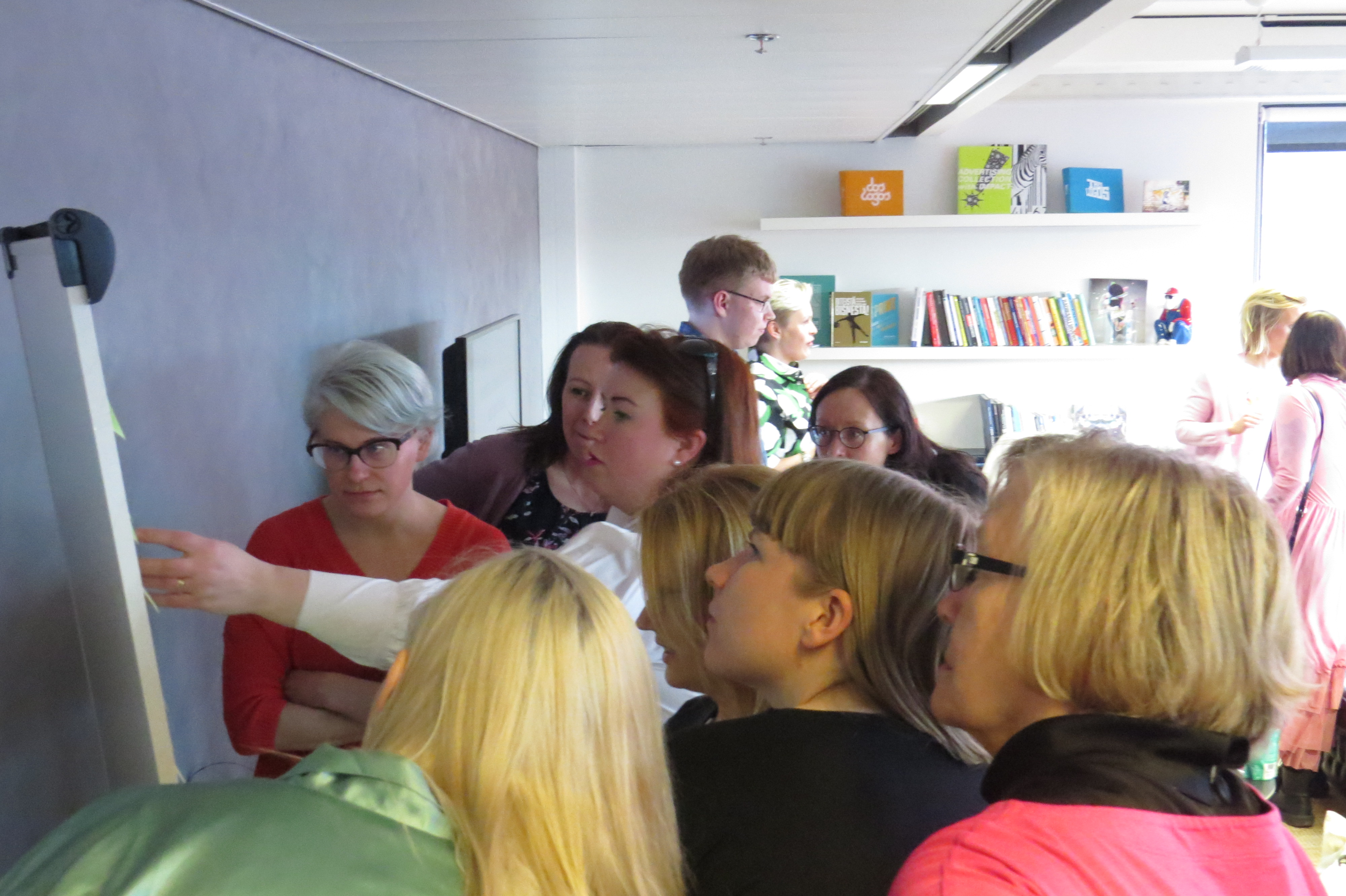 Muijii Wikipediaan edit-a-thon hosted by Jenni Janakka and Wikimedia Suomi at Redland's headquarters in Helsinki, Finland on April 26, 2019